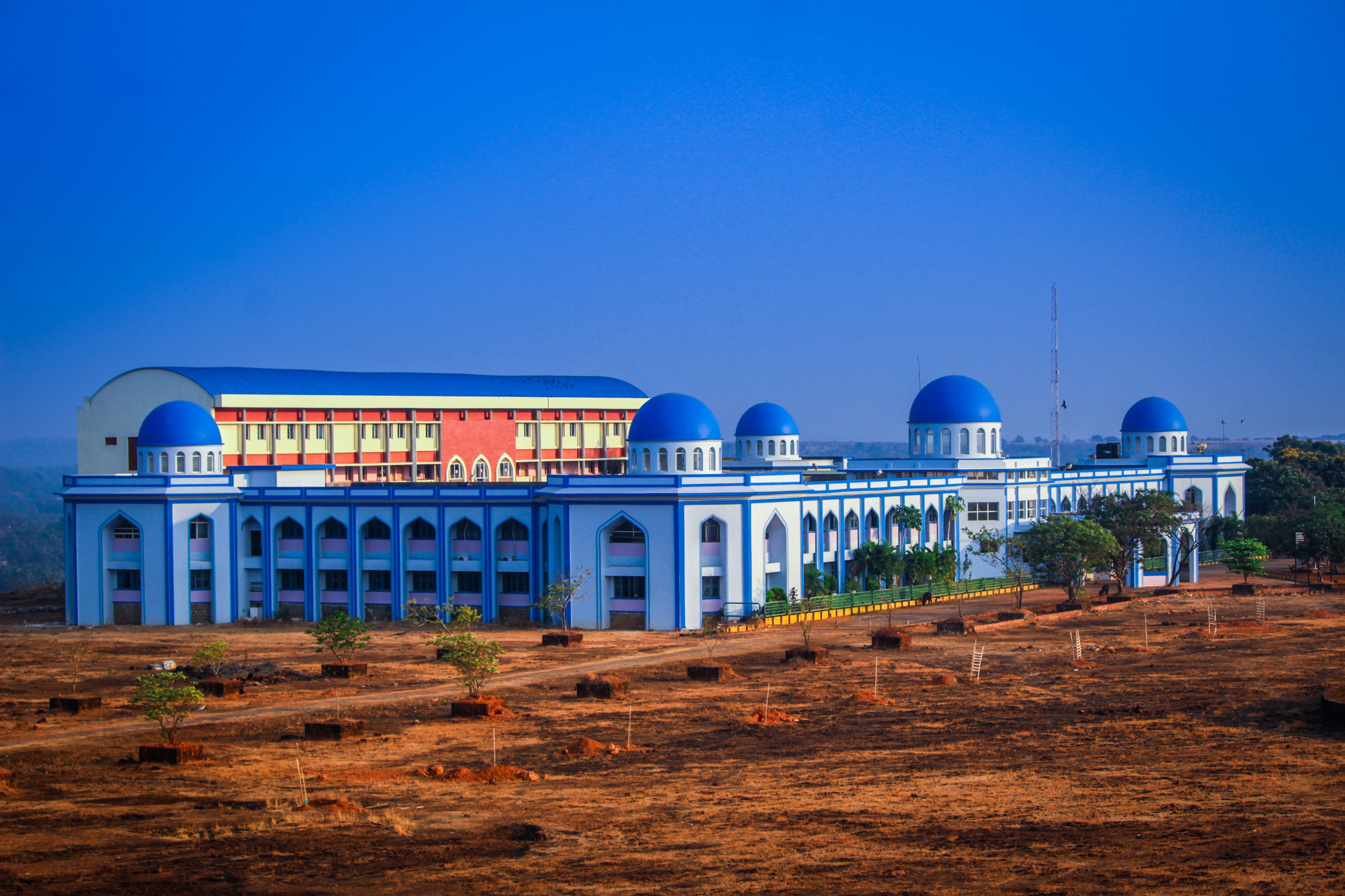 Magnificent view of Anjuman Institute of Technology and Management